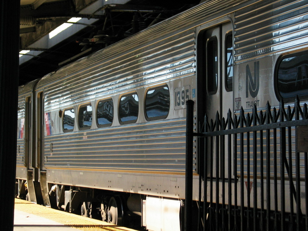 The closeup view of the Arrow-III train of NJ transit at Hoboken Terminal